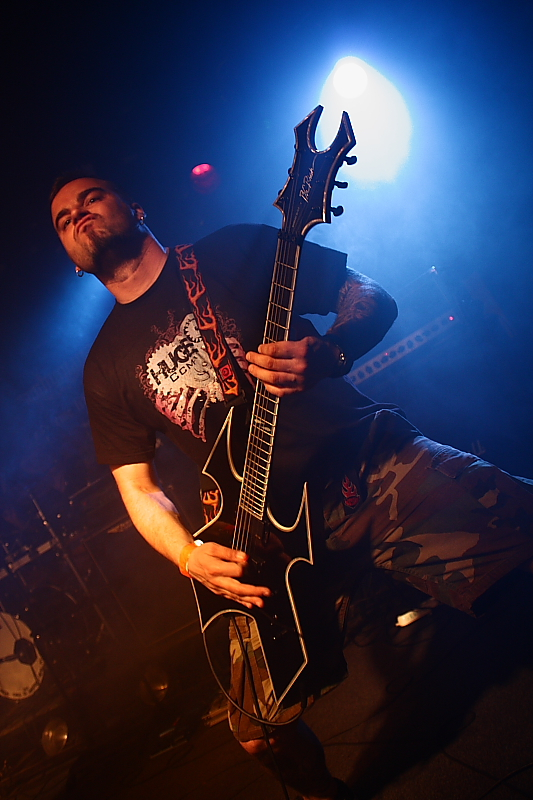 Frontside metalcore band